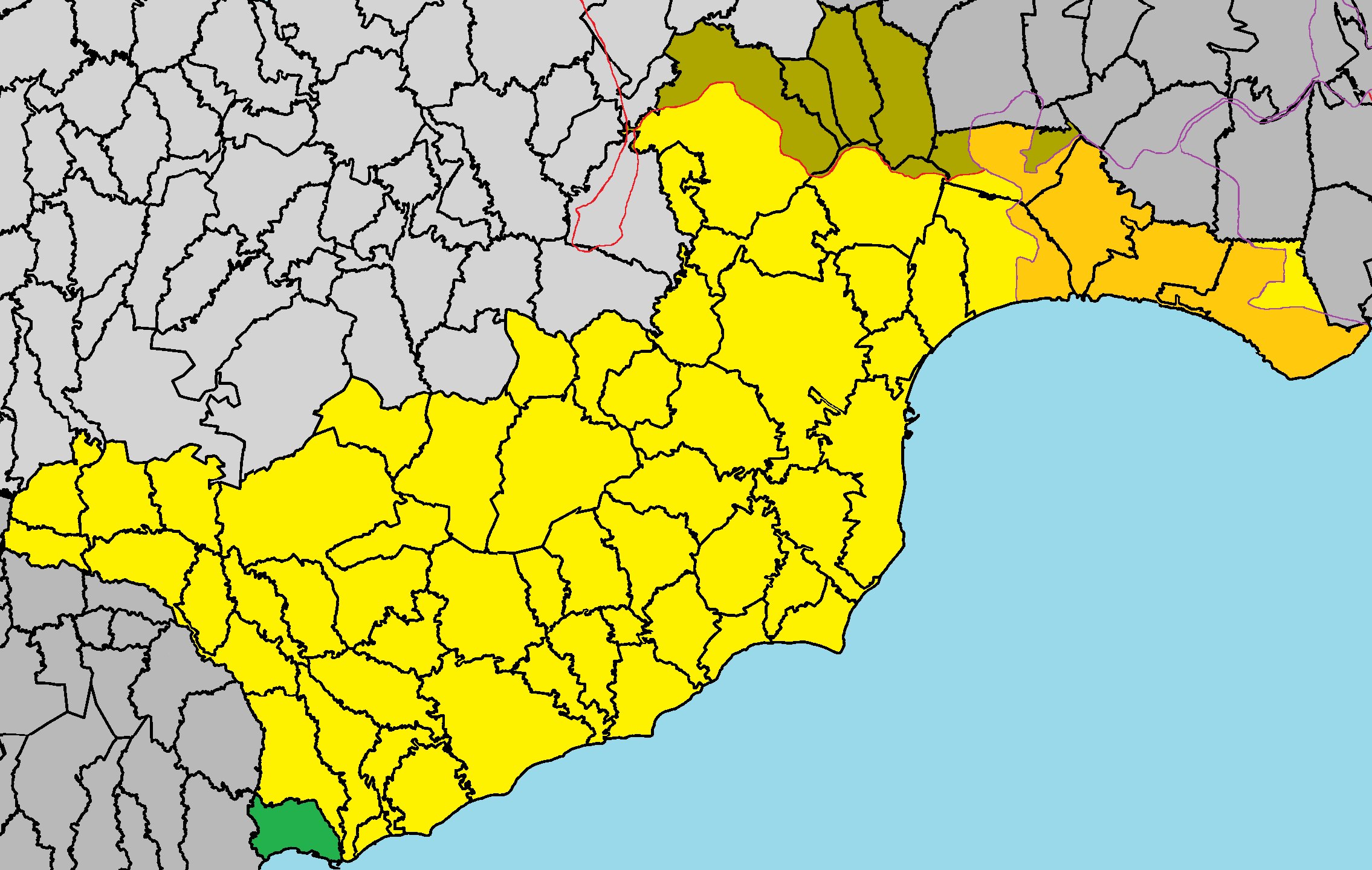 Mari in Larnaca District.